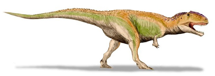 Giganotosaurus carolinii, a carcharodontosaurid from the Late Cretaceous of Argentina, pencil drawing, digital coloring. The proportions of the illustration have been modified to match those of the skeletal diagrams by palaeontologists Gregory S. Paul (The Princeton Field Guide to Dinosaurs, 2010, p. 98) and Scott Hartman[1].